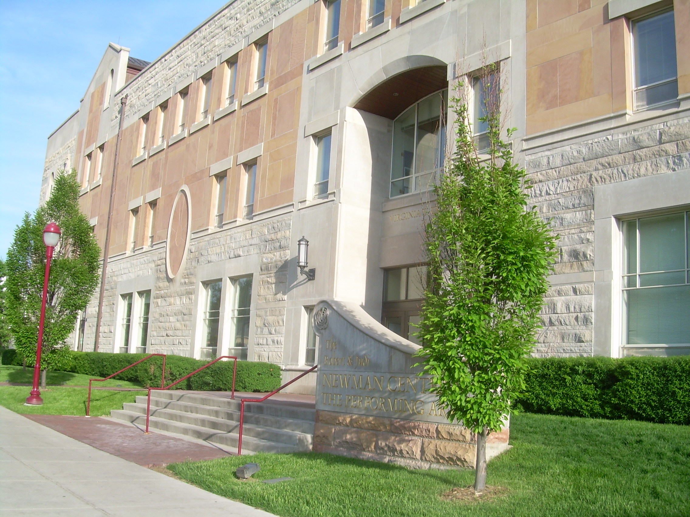 This is a photograph of the Newman Center for Performing Arts taken by the Author.